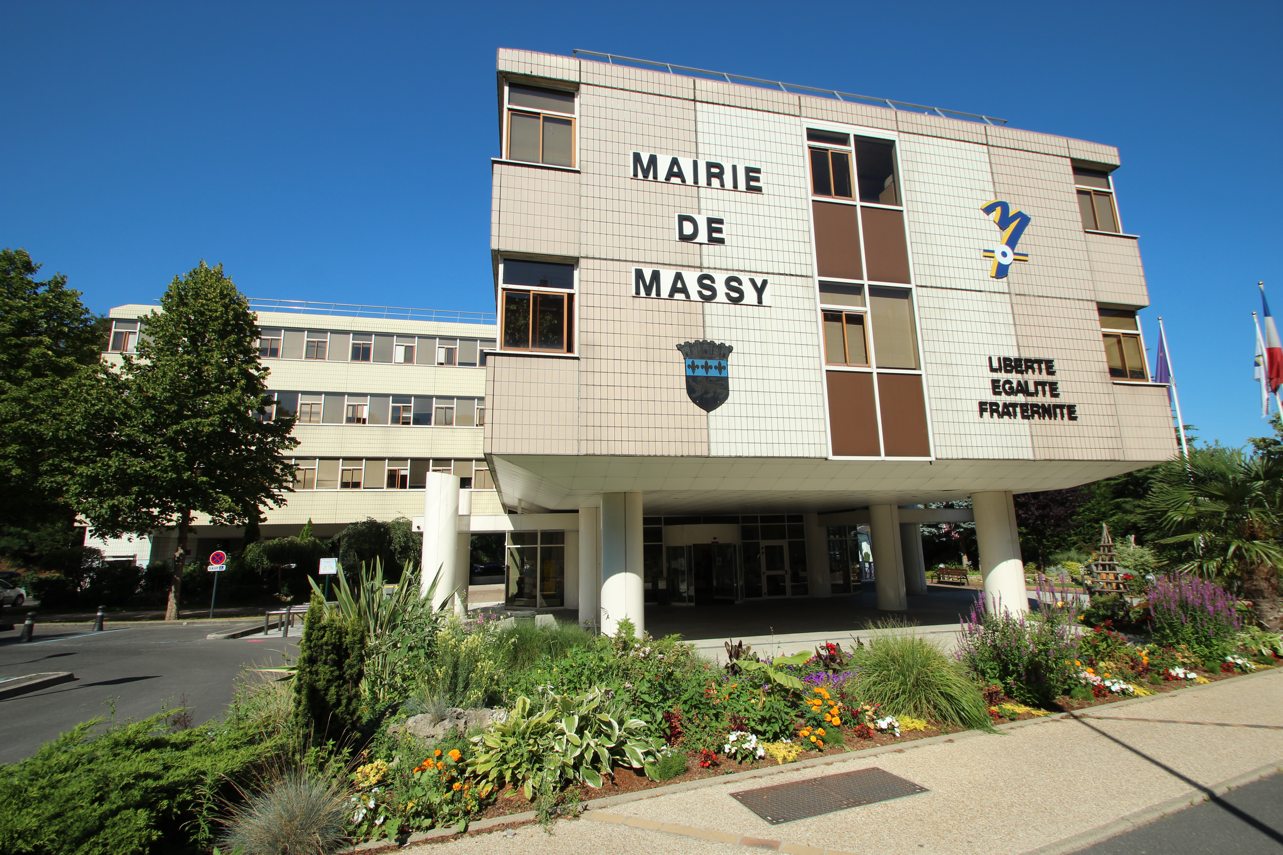 Town hall of Massy, Essonne, France. This image was uploaded as part of L'Été des villes 2015.